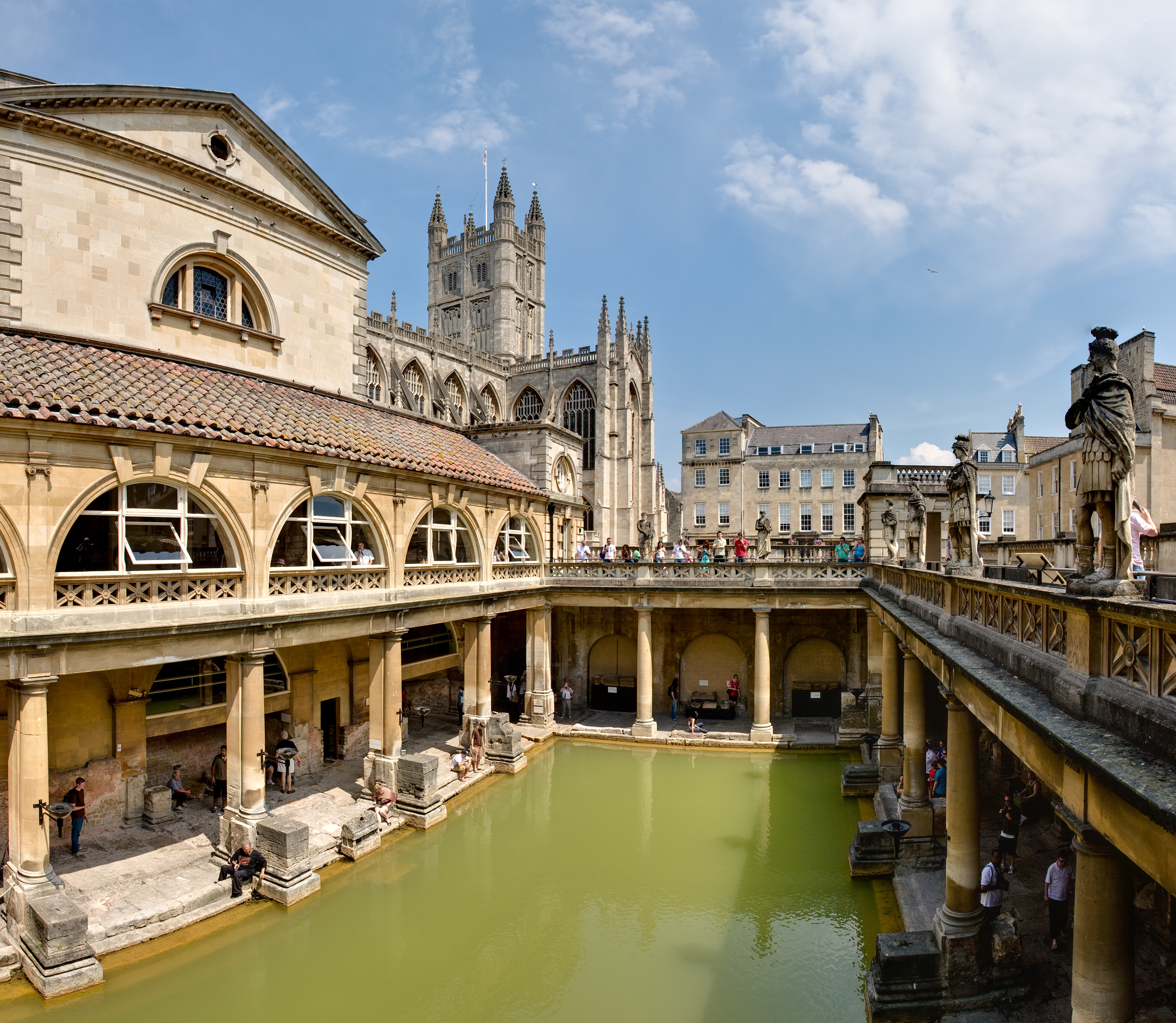 The Roman Baths (Thermae) of Bath Spa, England. This is a 6 segment panorama taken by myself with a Canon 5D and 24-105mm f/4L IS lens.